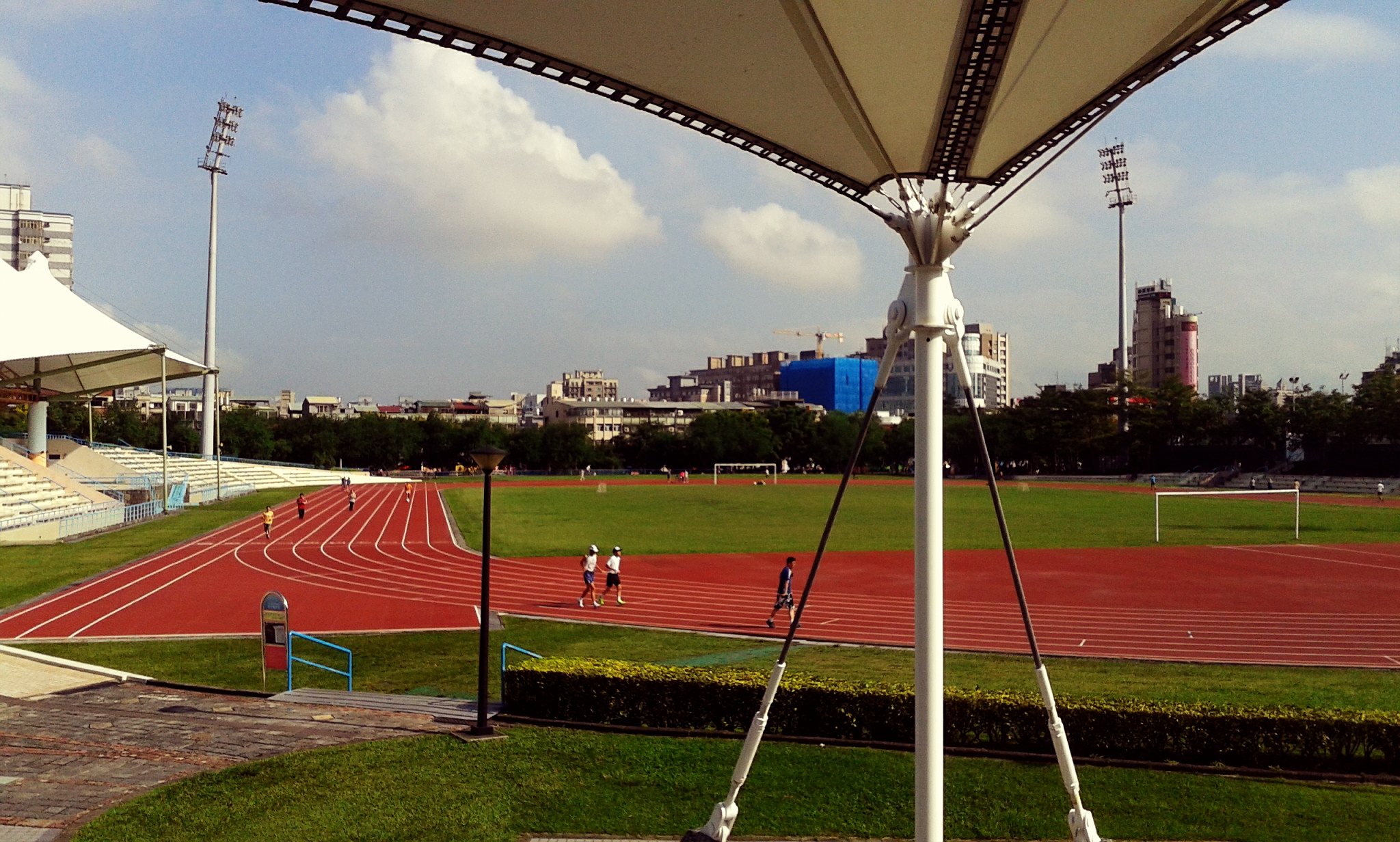 Xinzhuang Athletic Field 中文（台灣）: 新莊田徑場